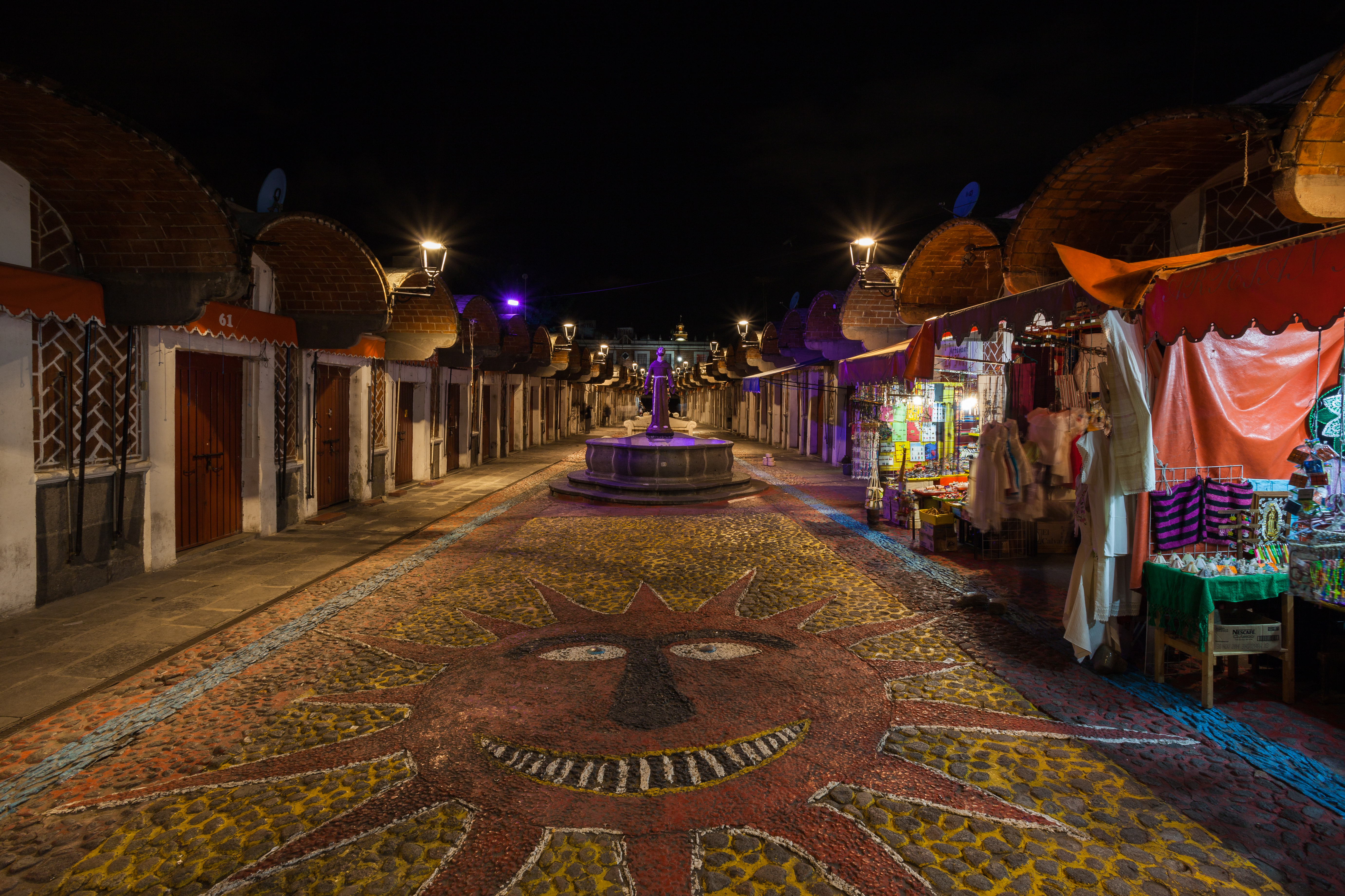 Market of El Parián, Puebla, Mexico